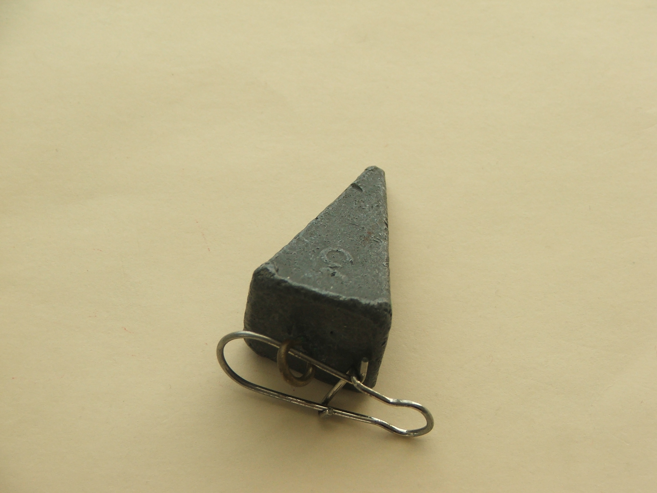 A highly corroded lead sinker found at the beach